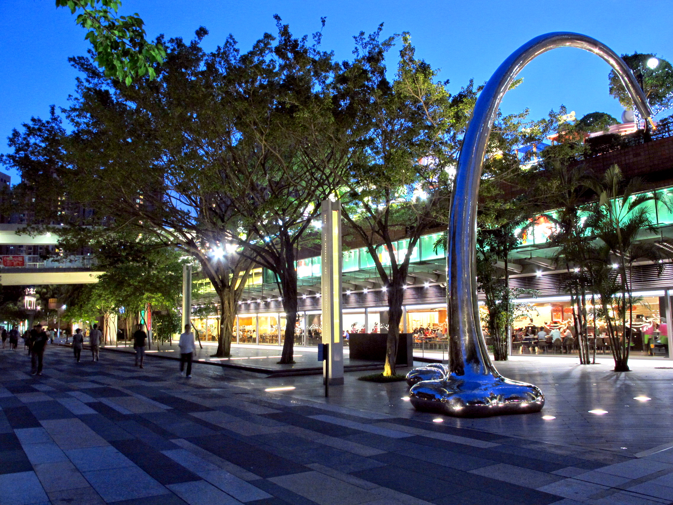 City Art Square Night view